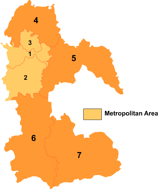 Map of Luzhou in Sichuan province